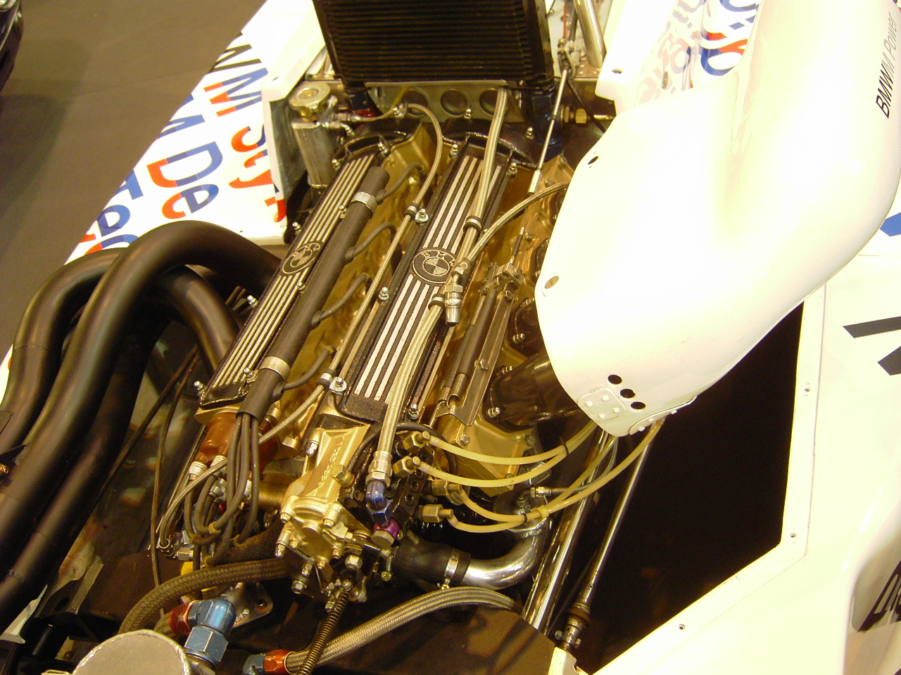 BMW Formula 2 Engine with Kugelfischer Injection